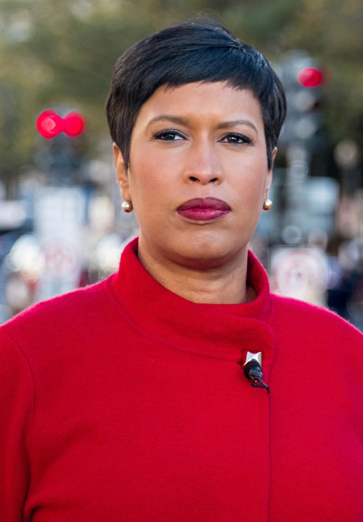 Muriel Bowser, the eighth Mayor of the District of Columbia, speaking for a video shoot at Freedom Plaza.